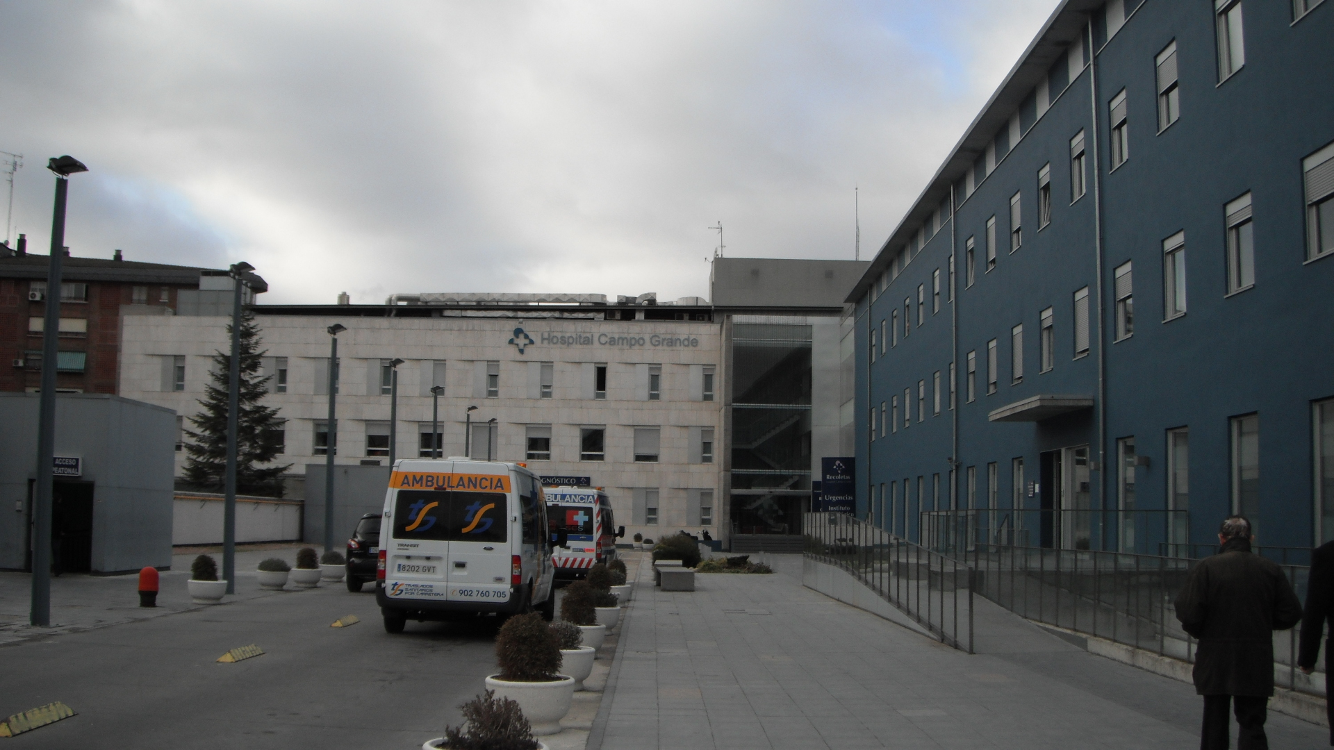 Hospital Campo Grande in Valladolid (Spain)